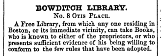 Description of Bowditch Library, Otis Place (near Summer St.), Boston, 1848